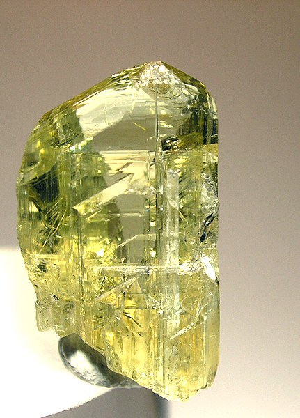 Zoisite Locality: Merelani Hills (Mererani), Lelatema Mts, Arusha Region, Tanzania (Locality at ) A stunning, gemmy, "yellow tanzanite" crystal. It is not know why these specimens trickling out now lack the blue color component usually found in tanzanite, but they sure are pretty nonetheless. 13.58 carats 1.7 x 1 x 0.8 cm